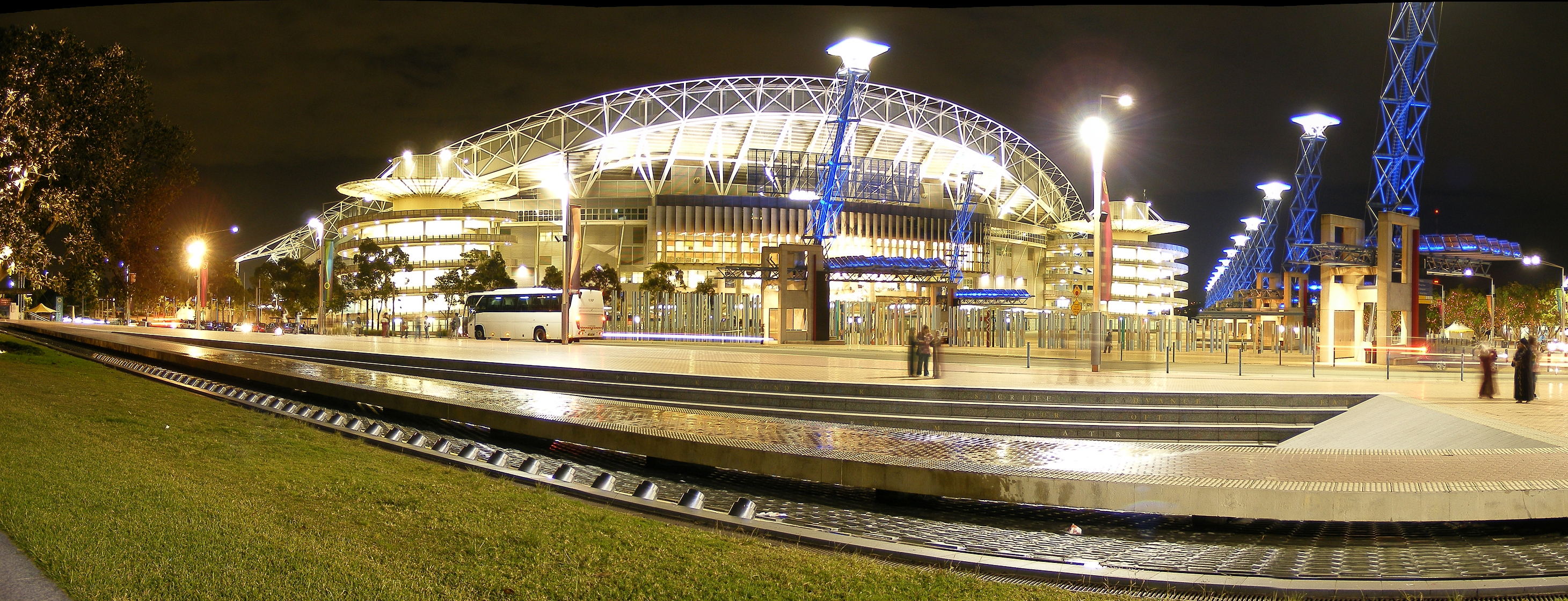 Olympic Stadium Sydney